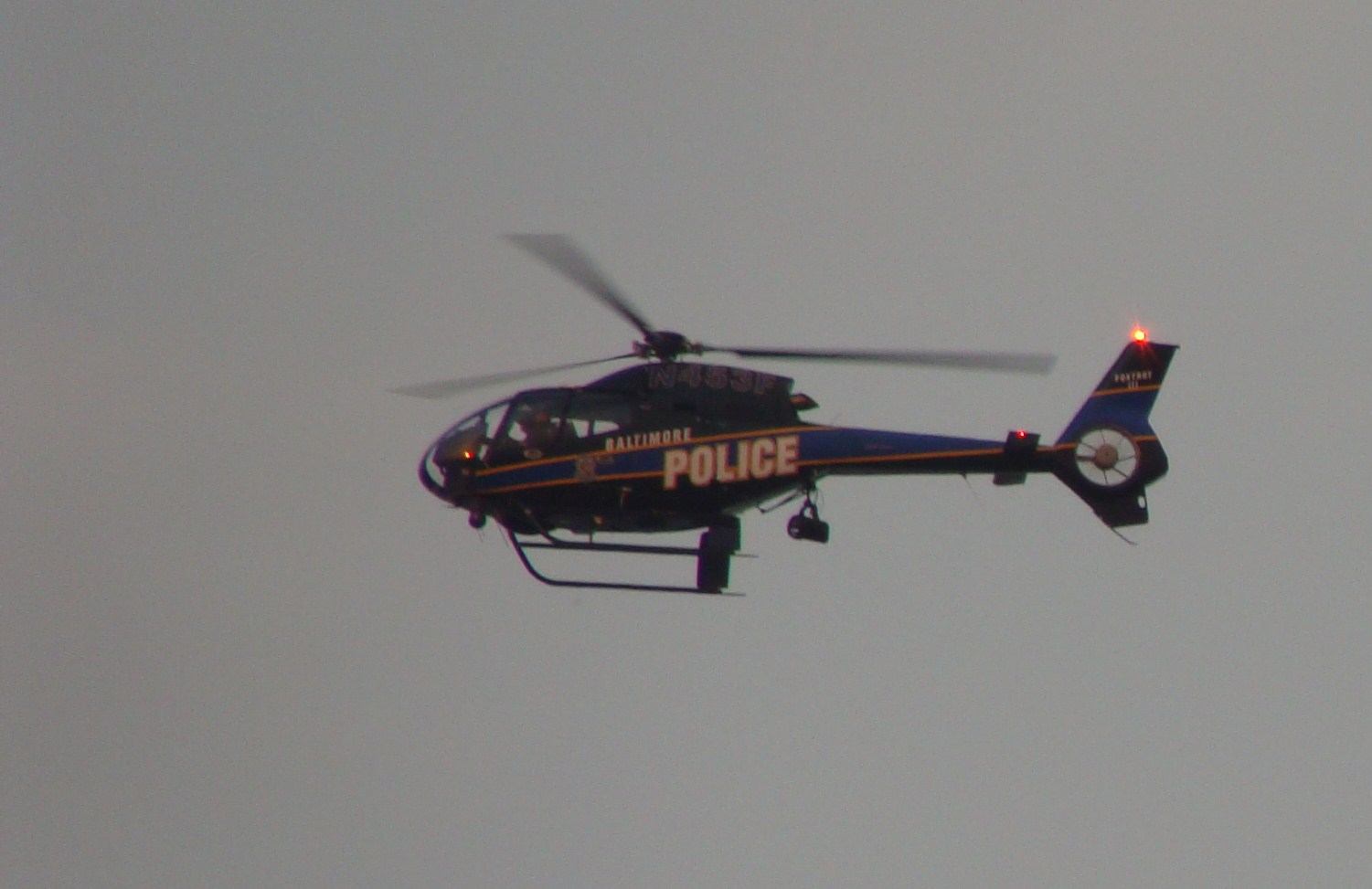 Police helicopter, also known as FoxTrot of the Baltimore Police Department in Maryland.